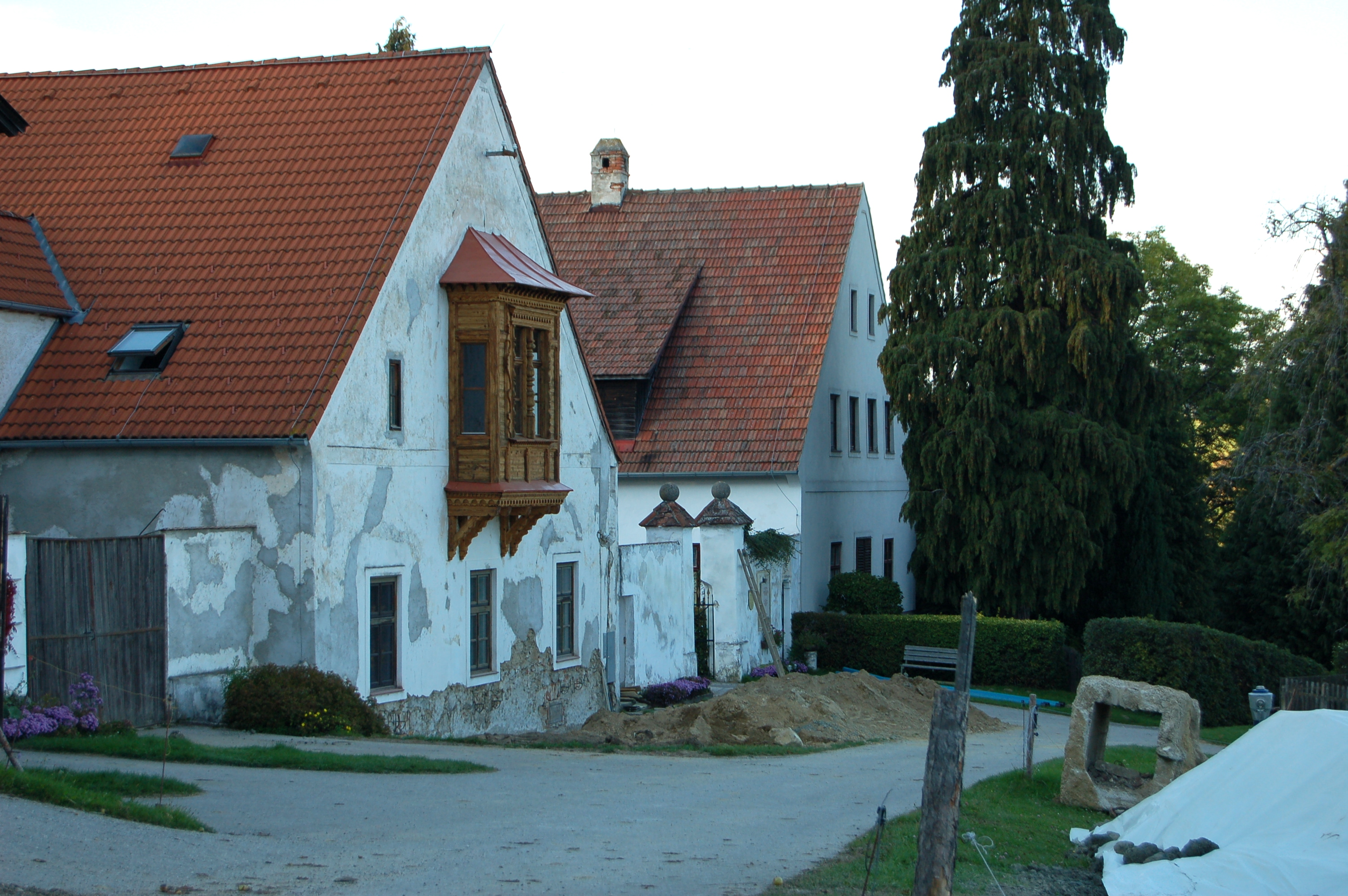 Tschudihof (i.e. Tschudi's Farm) in municipality Lichtenegg, Lower Austria